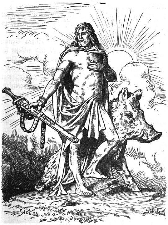 The god Freyr stands with his sword and the boar Gullinbursti.